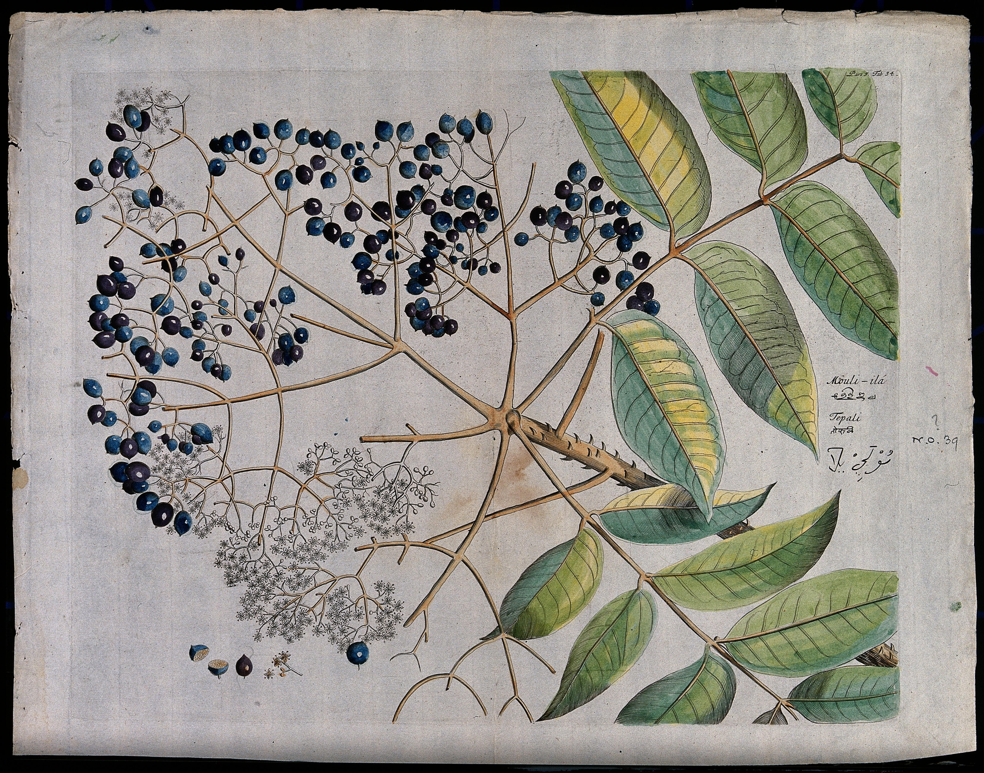 A plant (Zanthoxylum rhetsea) related to knobthorn: branch with flowers and fruit, separate flowers and fruit and sectioned fruit. Coloured line engraving. After Rheede tot Drakestein, 1685, Hortus malabaricus, vol. 5 : pl. 34. mouli-ila, moul-elavou in malayalam. Iconographic Collections Keywords: engravings; botany - pre-linnaean works; Hendrik Adriaan van Rheede tot Drakestein; Zanthoxylum; Rutaceae; plants, useful - india; botany - india - malabar coast; scientific illustrations